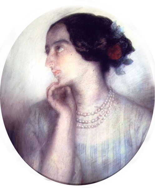 Portrait of Countess Anna Mniszech, daughter of Madame Hanska.